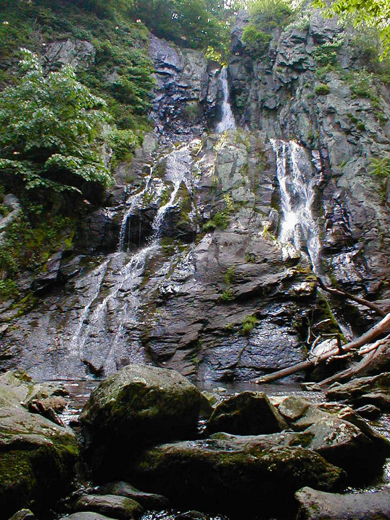 Photo of South River Falls in Shenandoah, NP